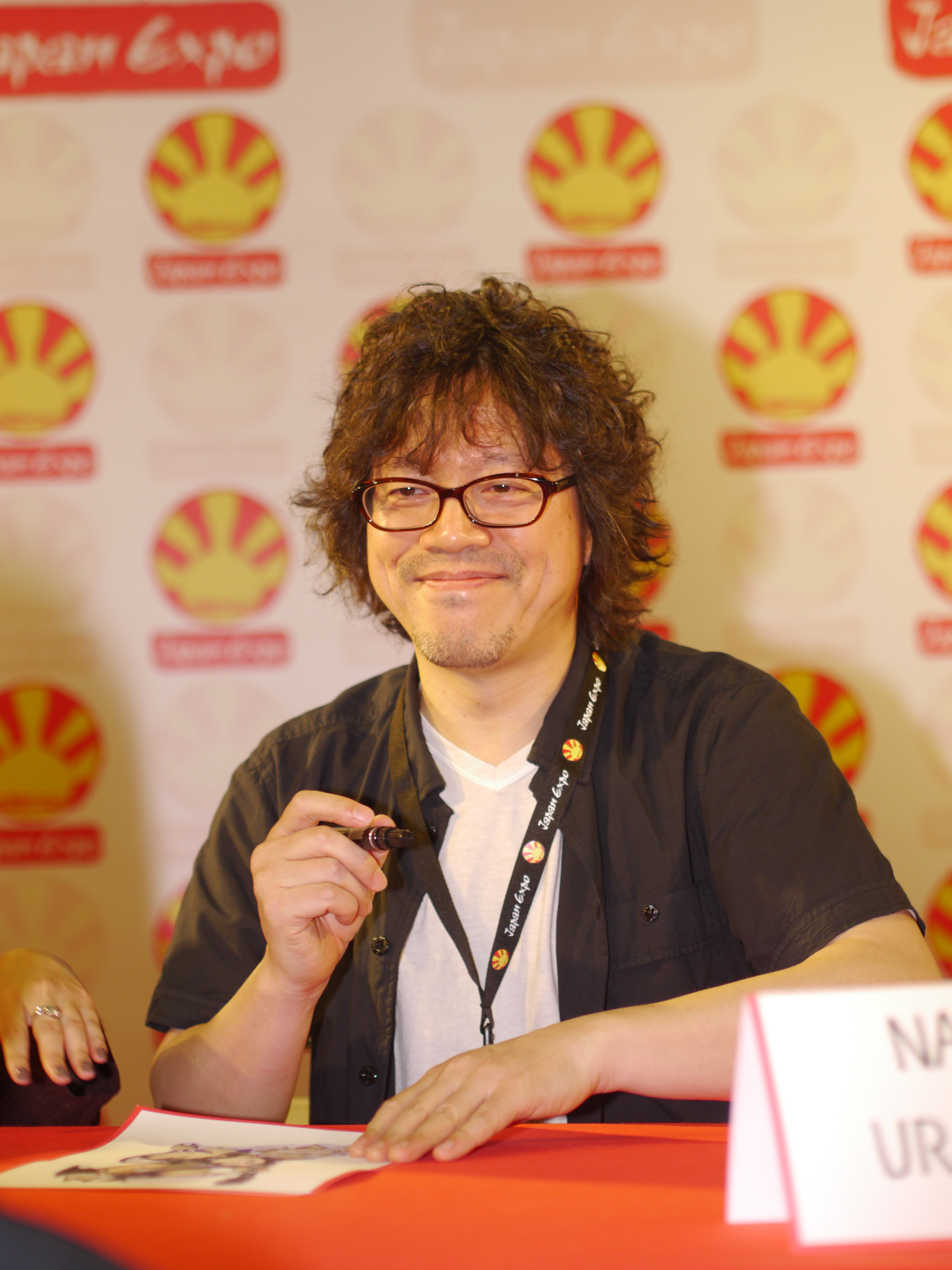 Japan Expo Festival, 13th impact